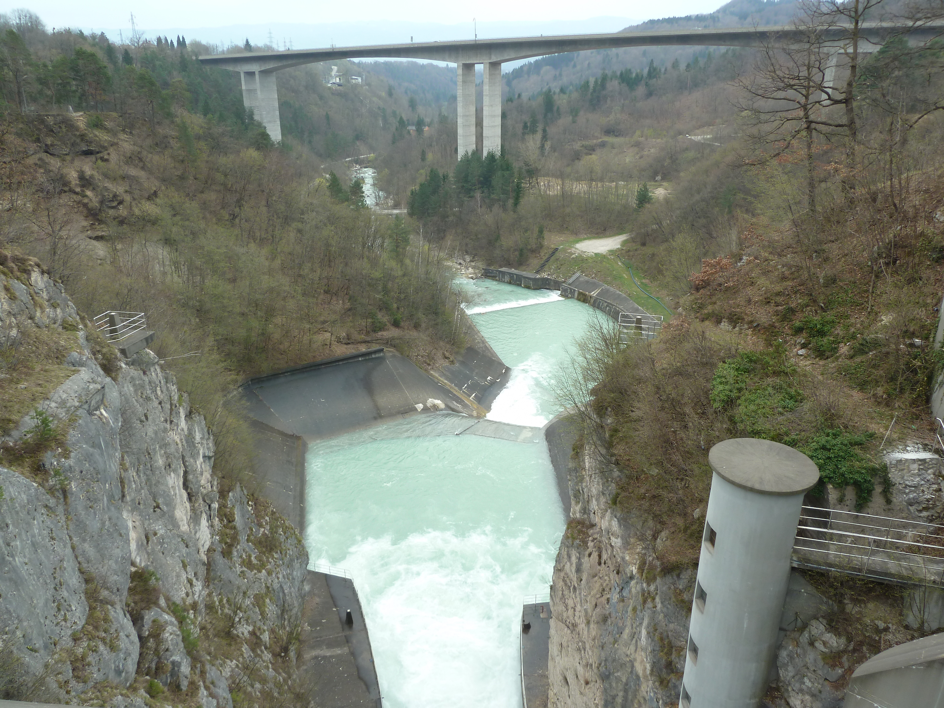 Sava Dolinka from the Moste powerplant dam